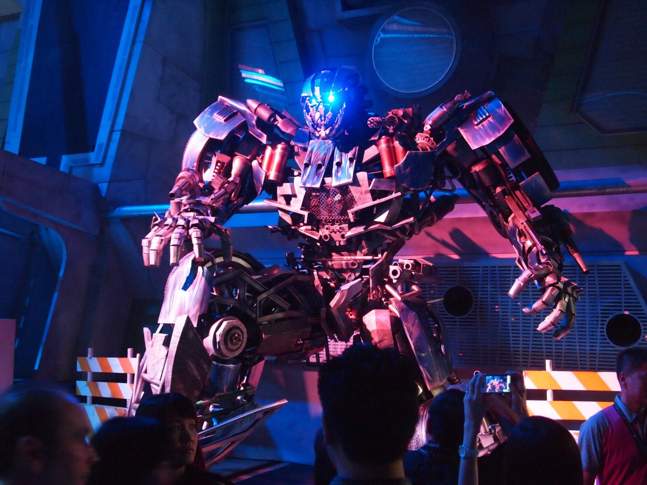 TRANSFORMERS The Ride